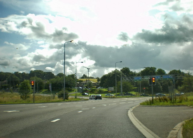 Junction 26, M62. The road to the left is the A638, to the right M62 and A58